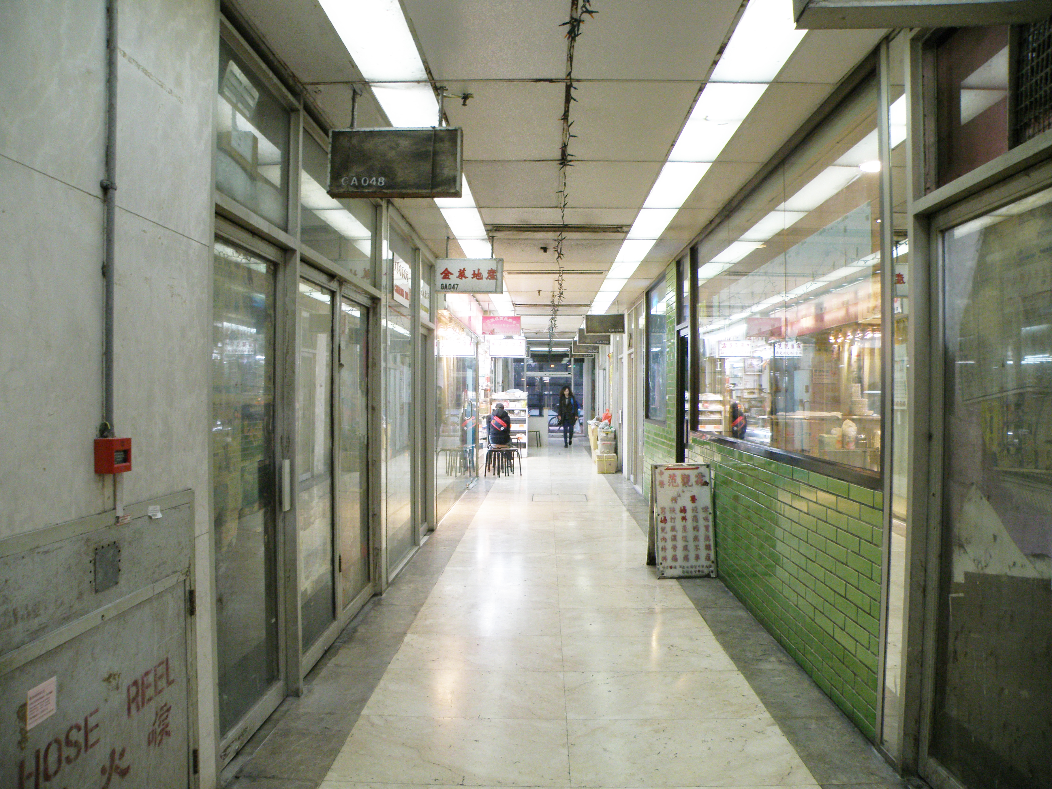 Walton Estate in Chai Wan, Hong Kong.